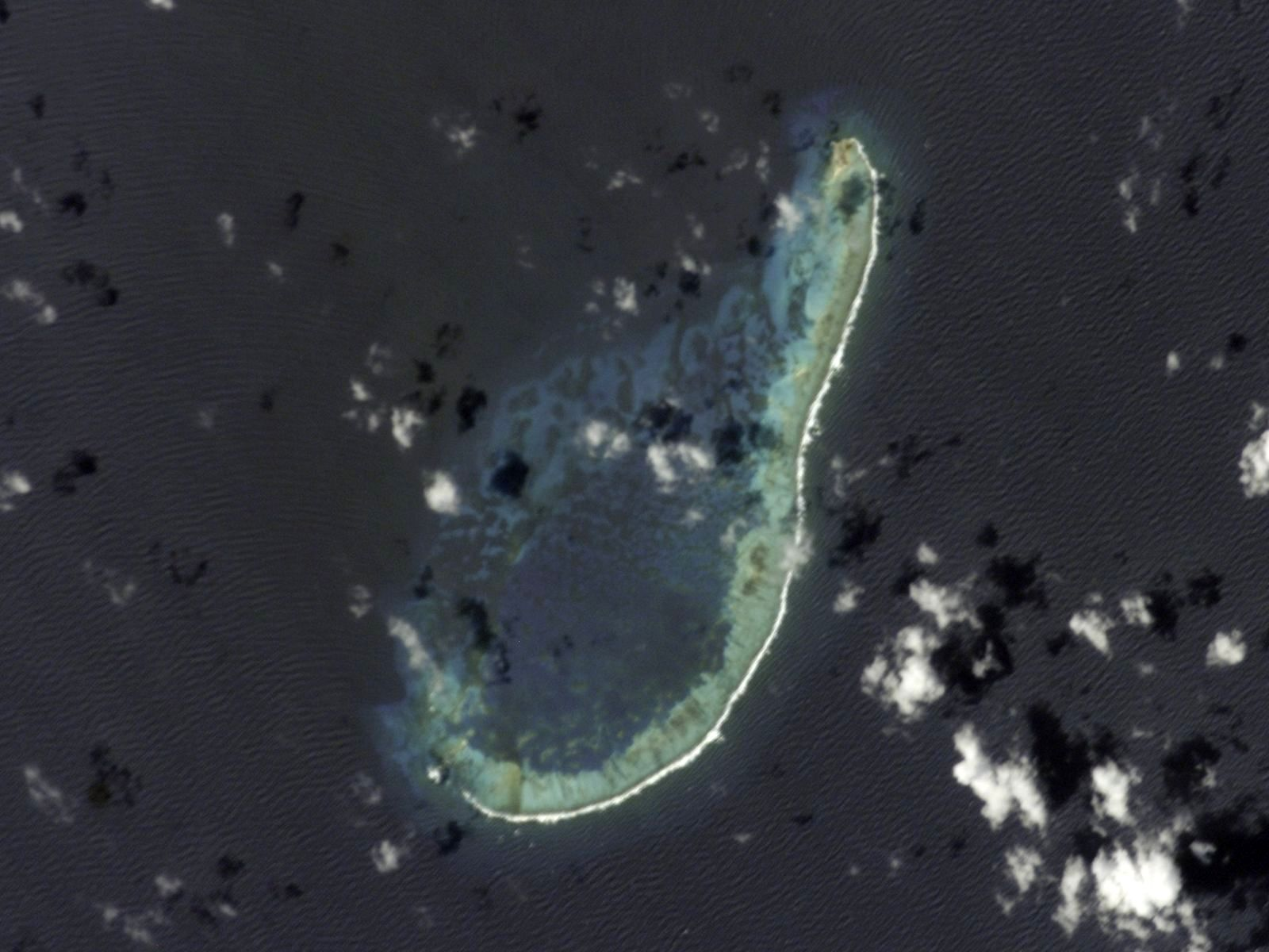 NASA astronaut image of Roncador Bank, Colombia, in the Caribbean Sea